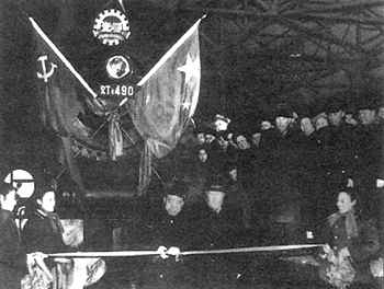 First passenger train from Beijing, China to Moscow, USSR on January 28, 1954.